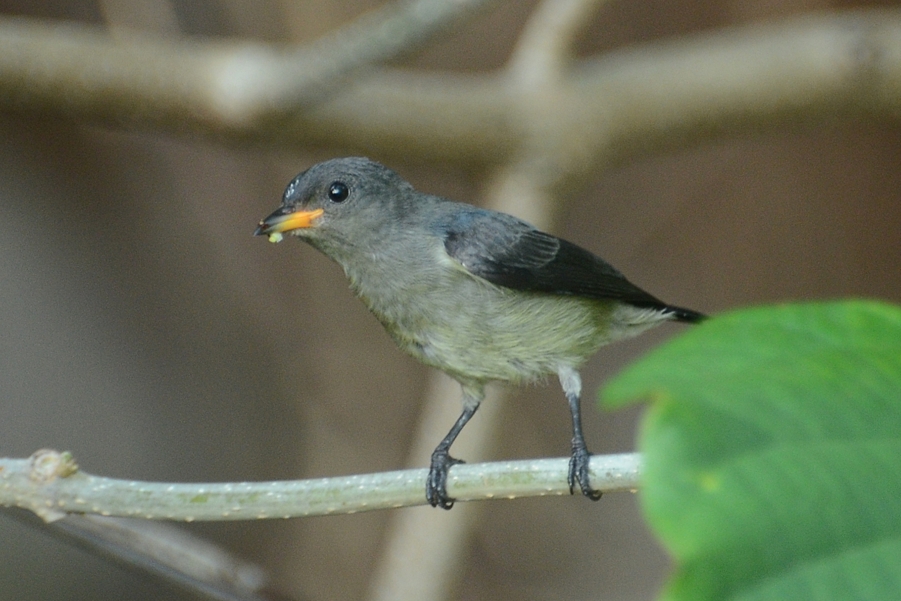 Grey-sided flowerpecker (Dicaeum celebicum sanghirense) at Siau Island, North Sulawesi